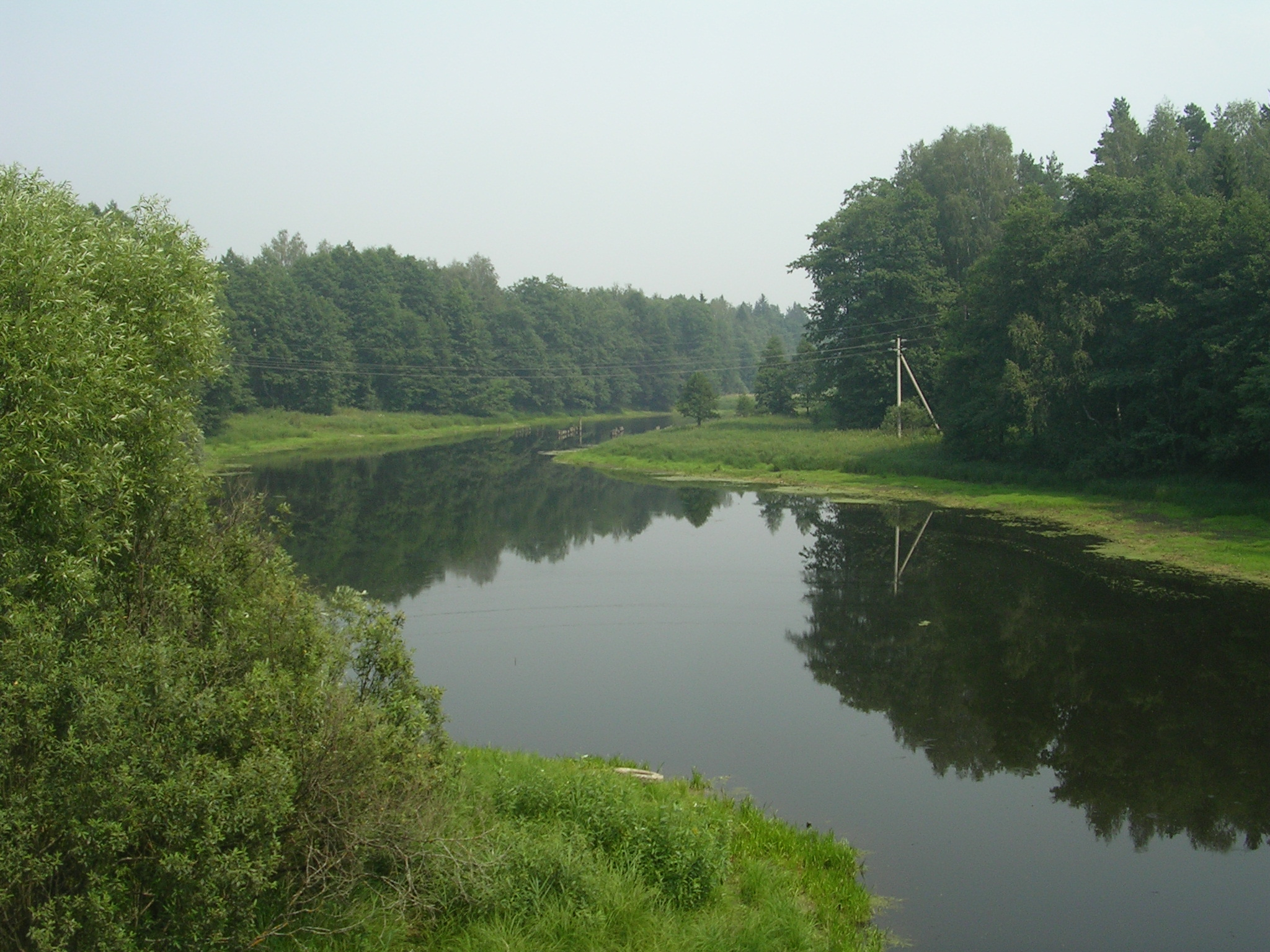 Polya river near Krivandino. Photo from automobile bridge, summer 2010.